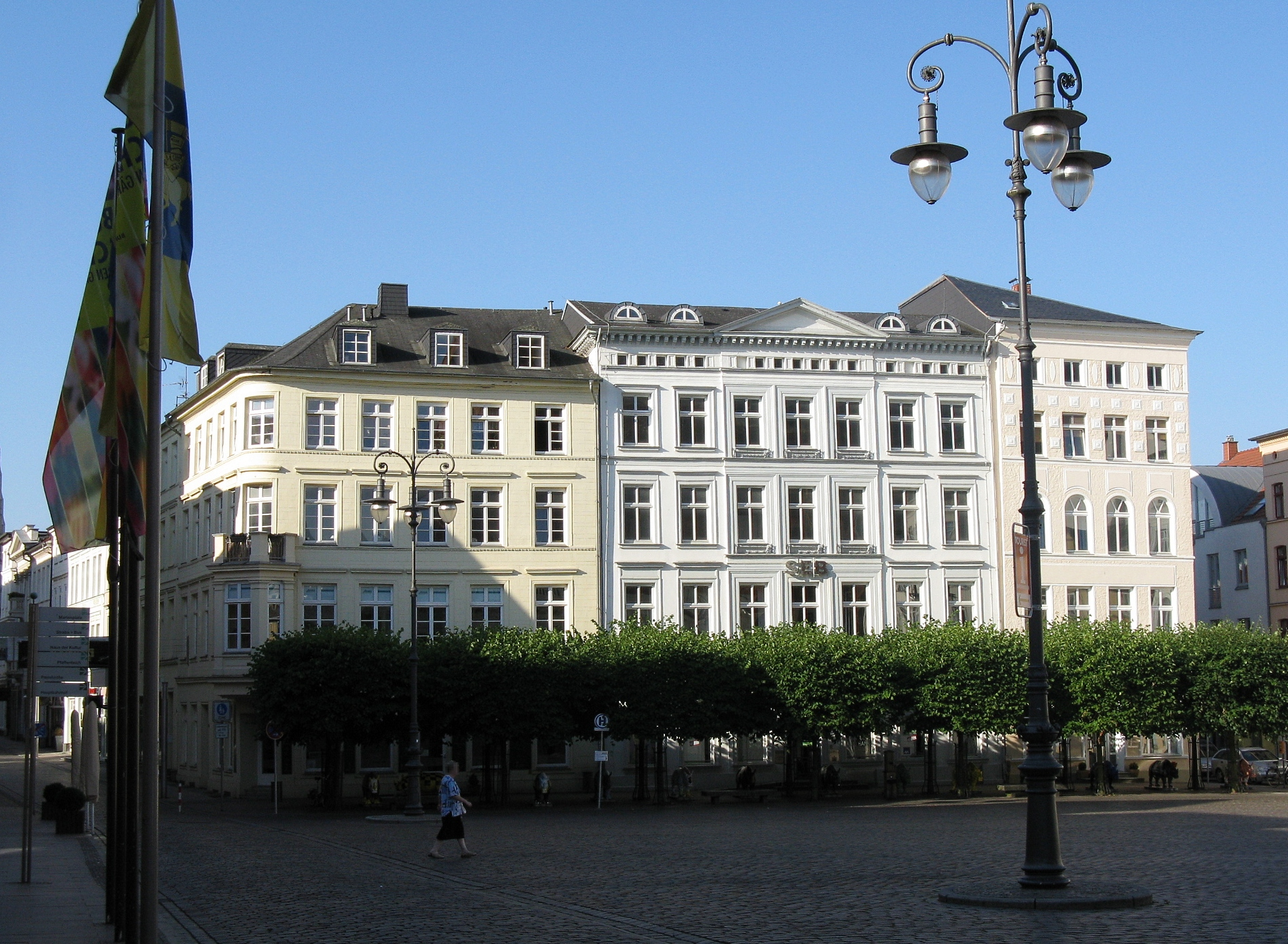 Building at market in Schwerin, Germany - Am Markt 6-8